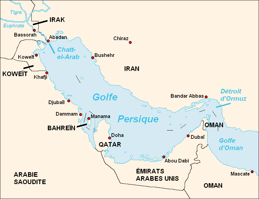 FrenchCarte dugolfe Persique(wp-FR),avec noms en français.EnglishMap ofPersian Gulf(wp-EN),with French names.